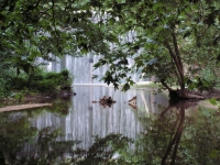 Waterfall in Zesta Nera in Siirokastro, Serres, Greece